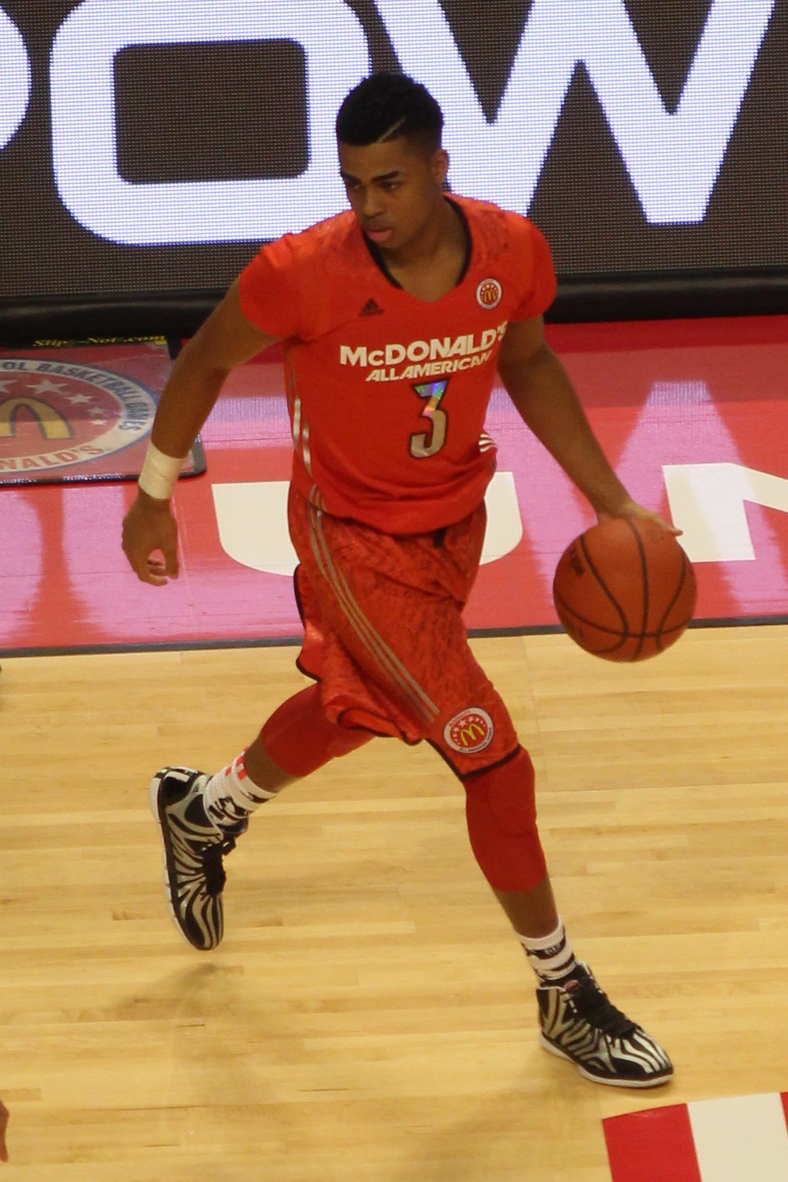 D'Angelo Russell in the w:2014 McDonald's All-American Boys Game